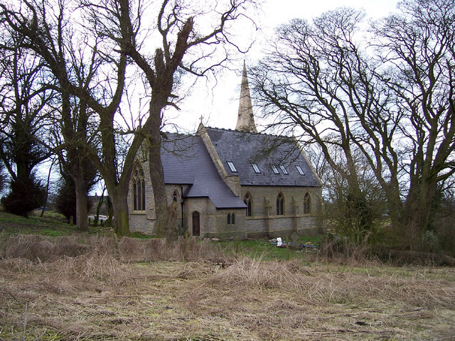 St, Hybald's Church, Manton. This church is in the course of conversion to a private residence as can be seen from the Velux windows added in the roof. Picture taken from the northwest.